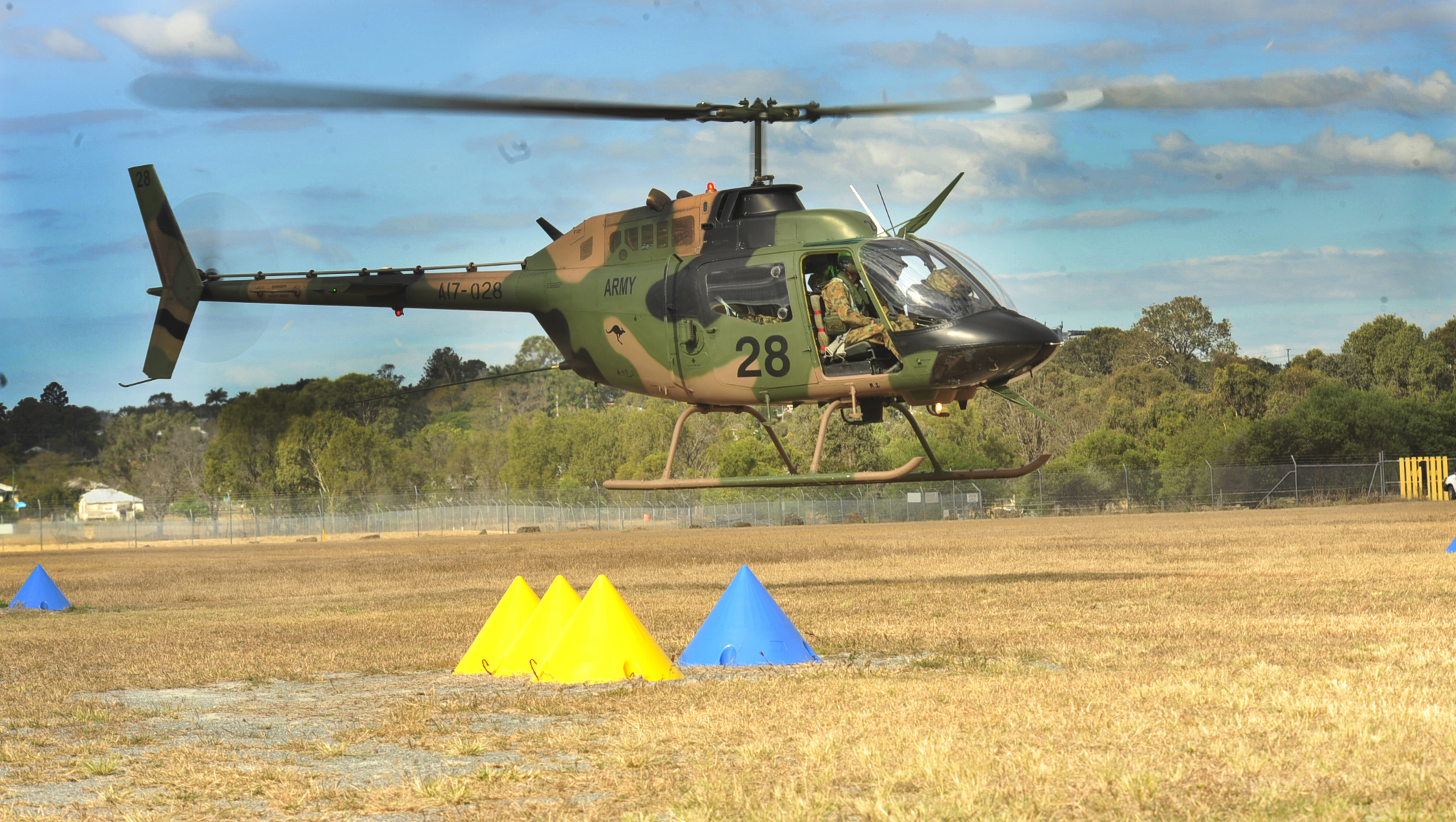 ROCKHAMPTON, Queensland, Australia (July 14, 2011) A Kiowa helicopter, with the 173rd Aviation Squadron, 6th Aviation Regiment, Australian Army, lifts off for a training maneuver during Talisman Sabre 2011.